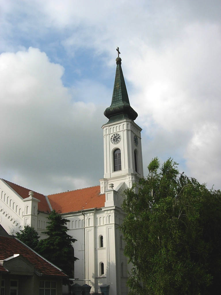 The Evangelical (Slovak) church in Selenča.